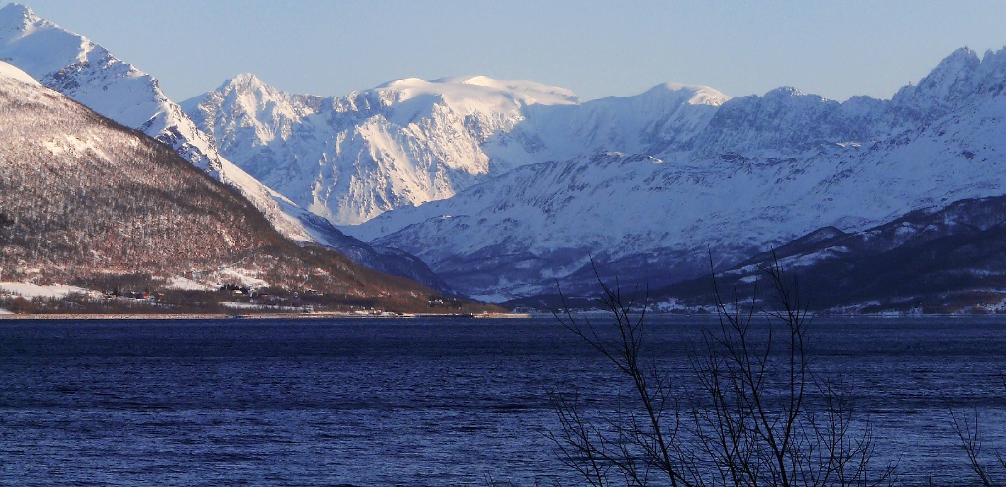 Jiehkkevárri (1,834 m, the high point at the center) as seen over the Balsfjorden in 2009 February.